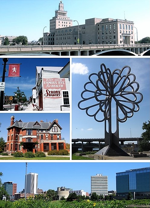 A montage of pictures of the city of Cedar Rapids, Iowa.